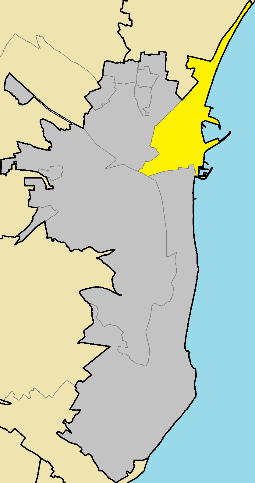 Chrysopolitissa in Larnaca Municipality.